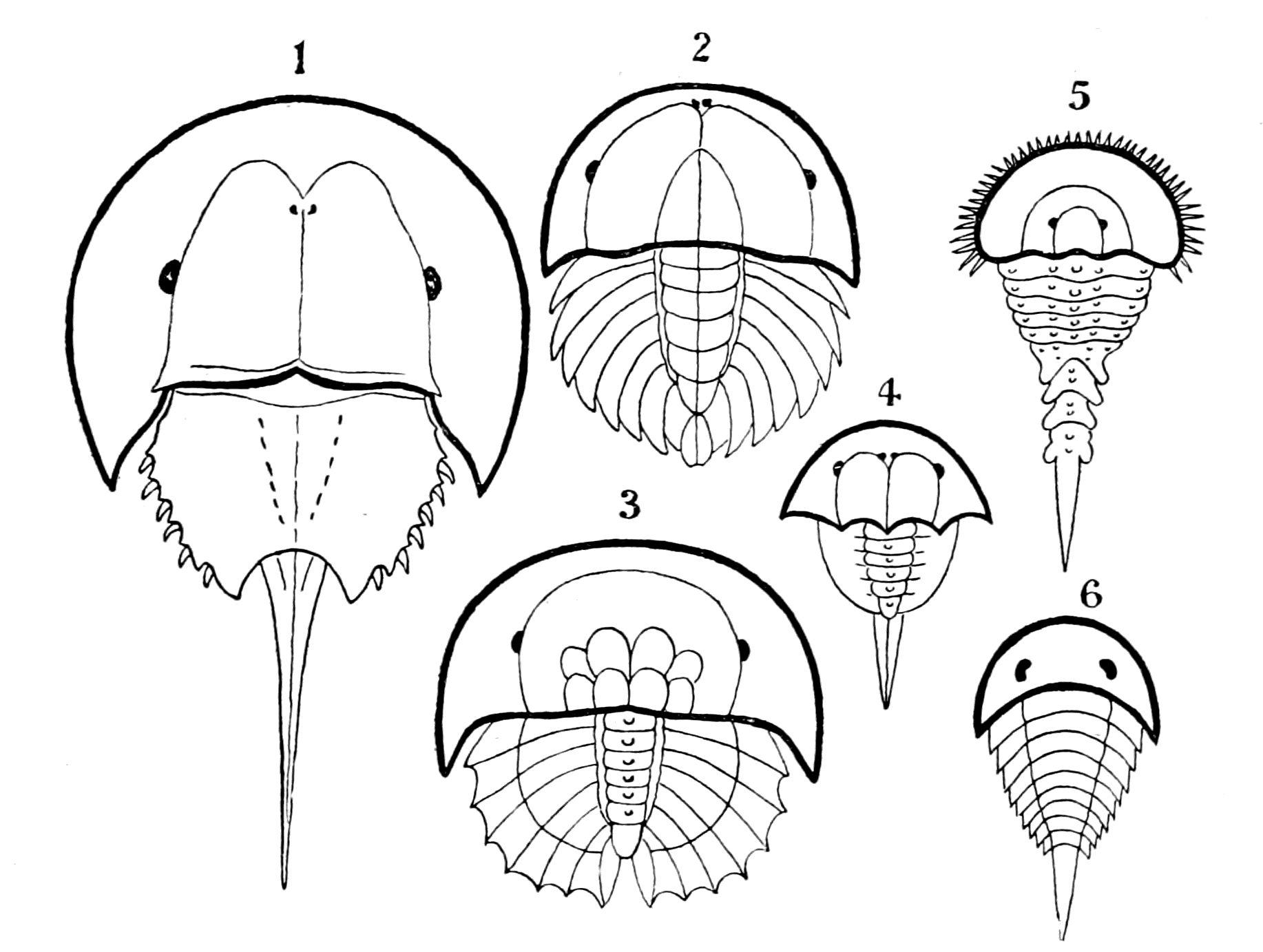 Fig. 5 (from H. Woodward).—1. Limulus polyphemus (dorsal aspect). 2. Limulus, young, in trilobite stage. 3. Prestwichia rotundata. 4. Prestwichia Birtwelli. 5. Hemiaspis limuloides. 6. Pseudoniscus aculeatus. Prestwichia Woodward is now synonymised to Euproops. → This file has an extracted image: File:Pseudoniscus aculeatus Origin of Vertebrates.png.